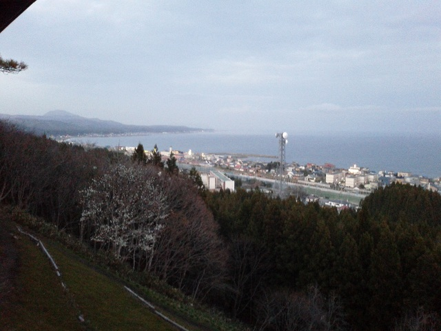 A view of Kikonai, Hokkaido, facing north from Yakushiyama. Visible is the coastline